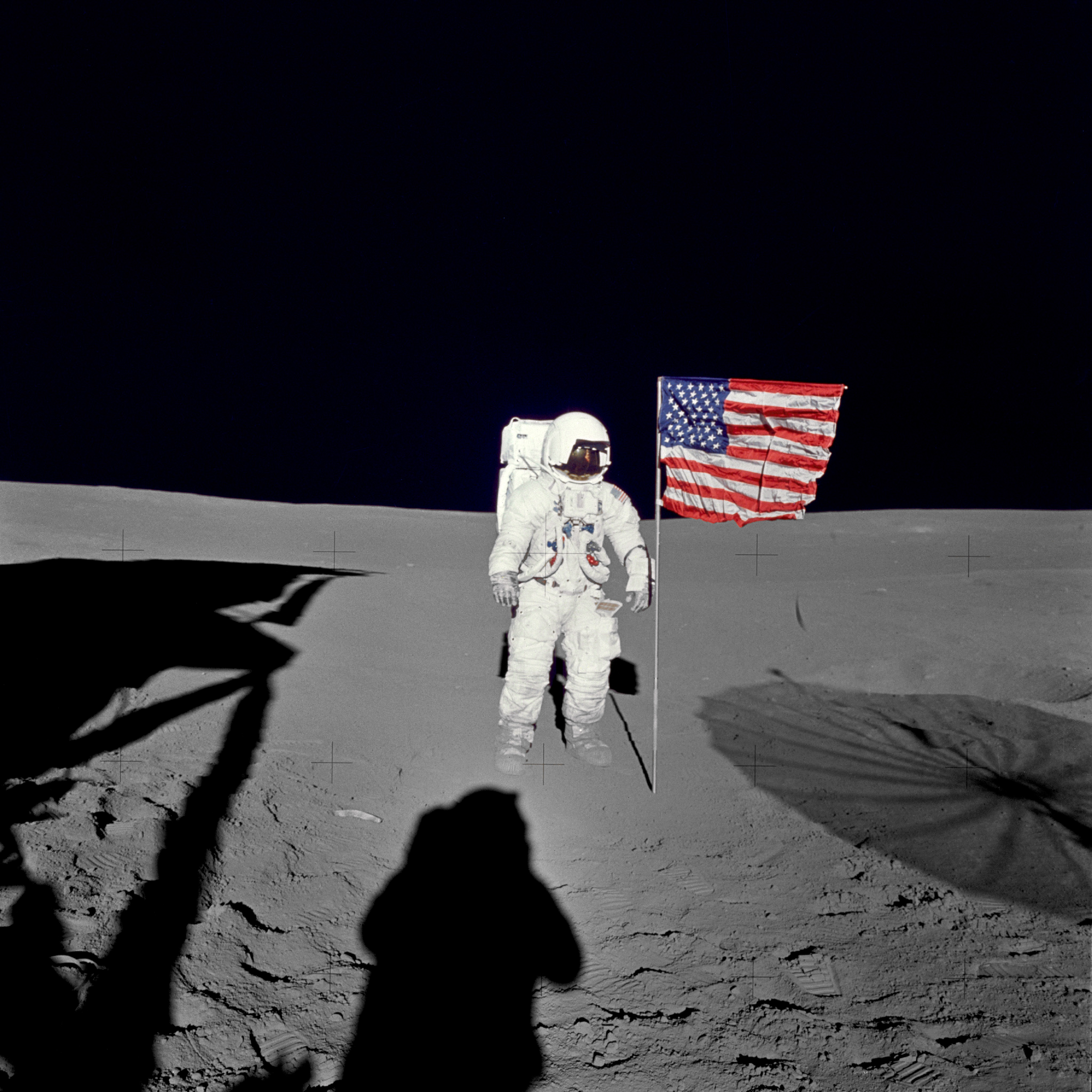 AS14-66-9233 (5 Feb. 1971) --- Astronaut Edgar D. Mitchell, lunar module pilot for the Apollo 14 lunar landing mission, stands by the deployed U.S. flag on the lunar surface during the early moments of the first extravehicular activity (EVA) of the mission. He was photographed by astronaut Alan B. Shepard Jr., mission commander, using a 70mm modified lunar surface Hasselblad camera. While astronauts Shepard and Mitchell descended in the Lunar Module (LM) "Antares" to explore the Fra Mauro region of the moon, astronaut Stuart A. Roosa, command module pilot, remained with the Command and Service Modules (CSM) "Kitty Hawk" in lunar orbit.